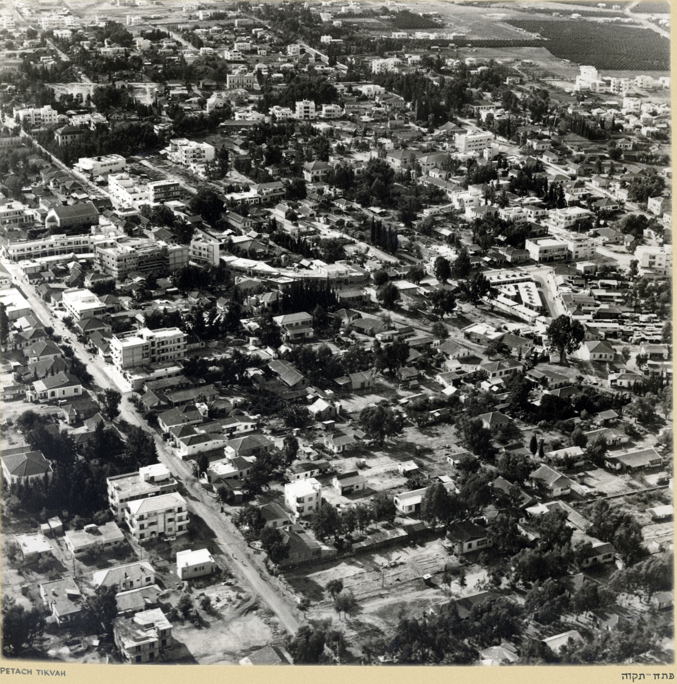 Z. Kluger. Erez Israel from the air - 1937-38